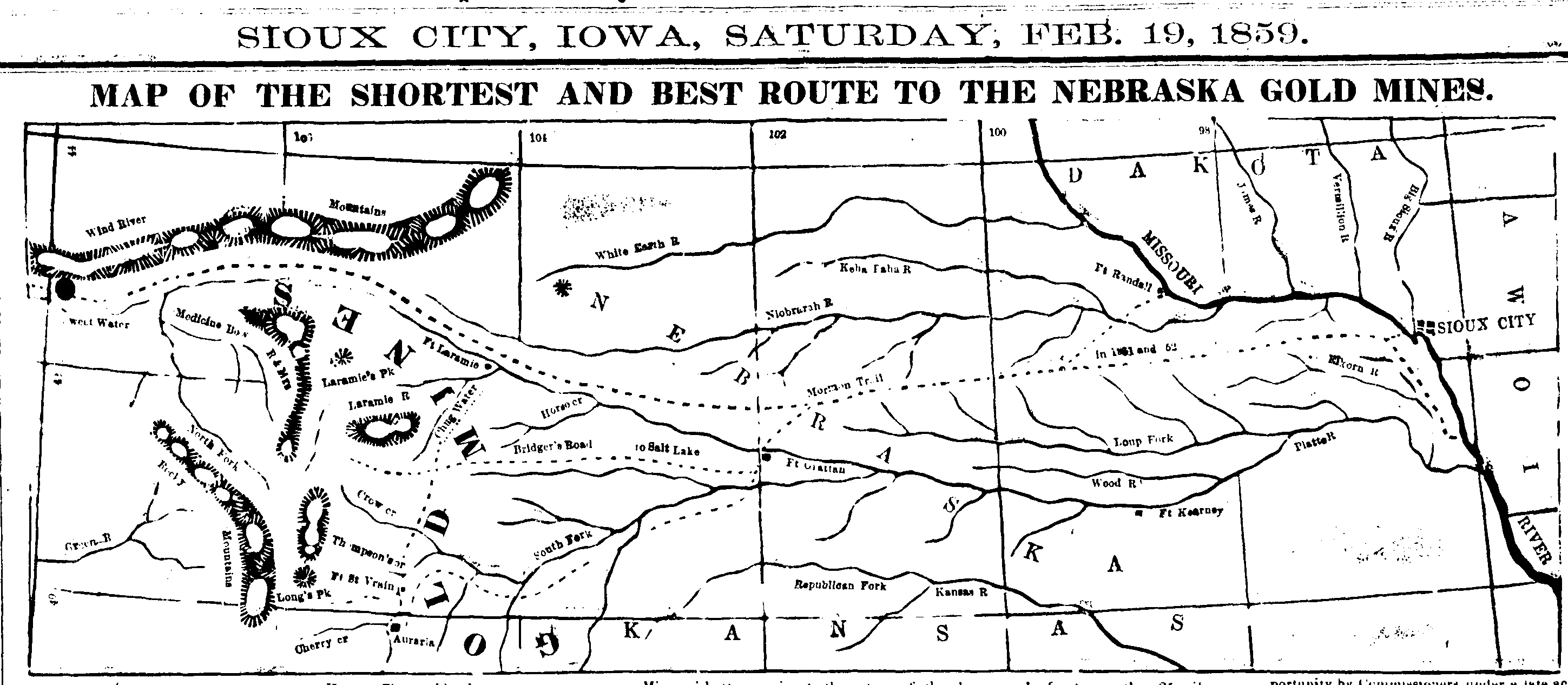 1859 map of route from Sioux City, Iowa, through Nebraska, to gold fields of Wyoming, published Sioux City Iowa Eagle February 19, 1859 p. 1